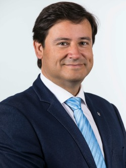 Official photograph of Patricio Rosas as deputy of the Republic of Chile in 2018